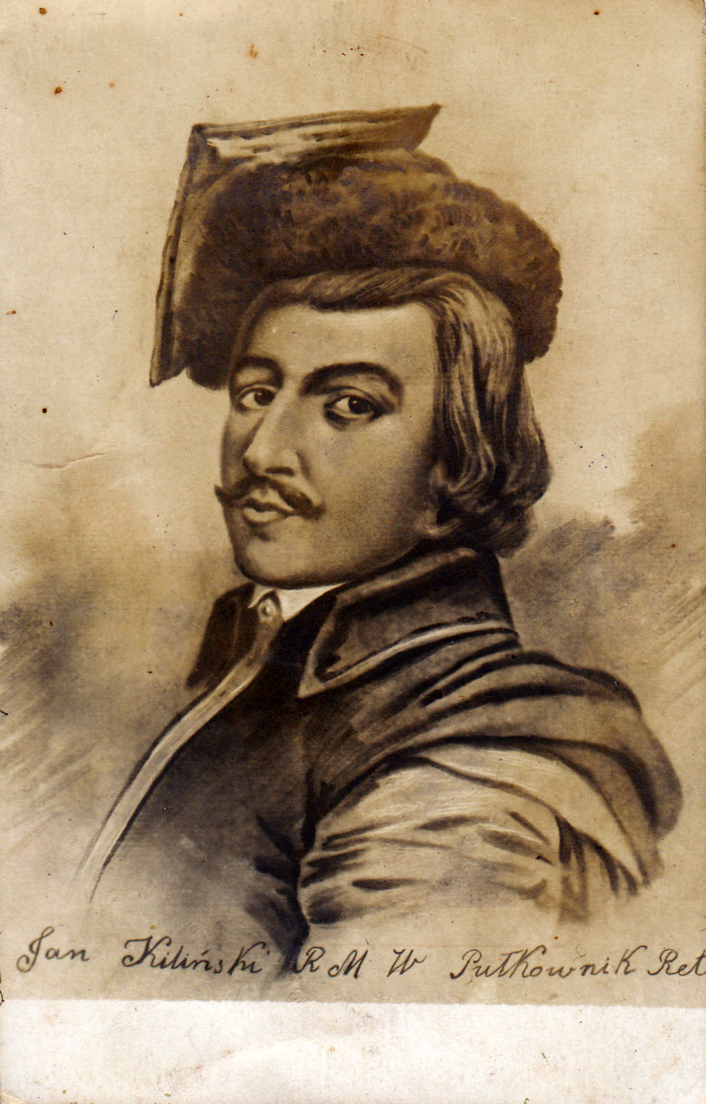 Jan Kiliński. Postcard from 1919 (Poland). Publisher: Unknown.